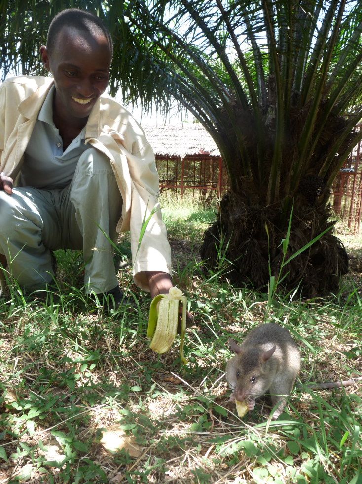 A HeroRAT and his trainer